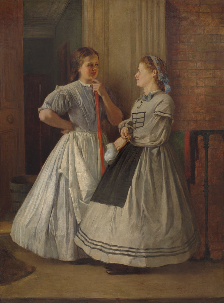 Two maids chatting at a door, one with a broom, the other holding a jug. Both wearing crinolines.